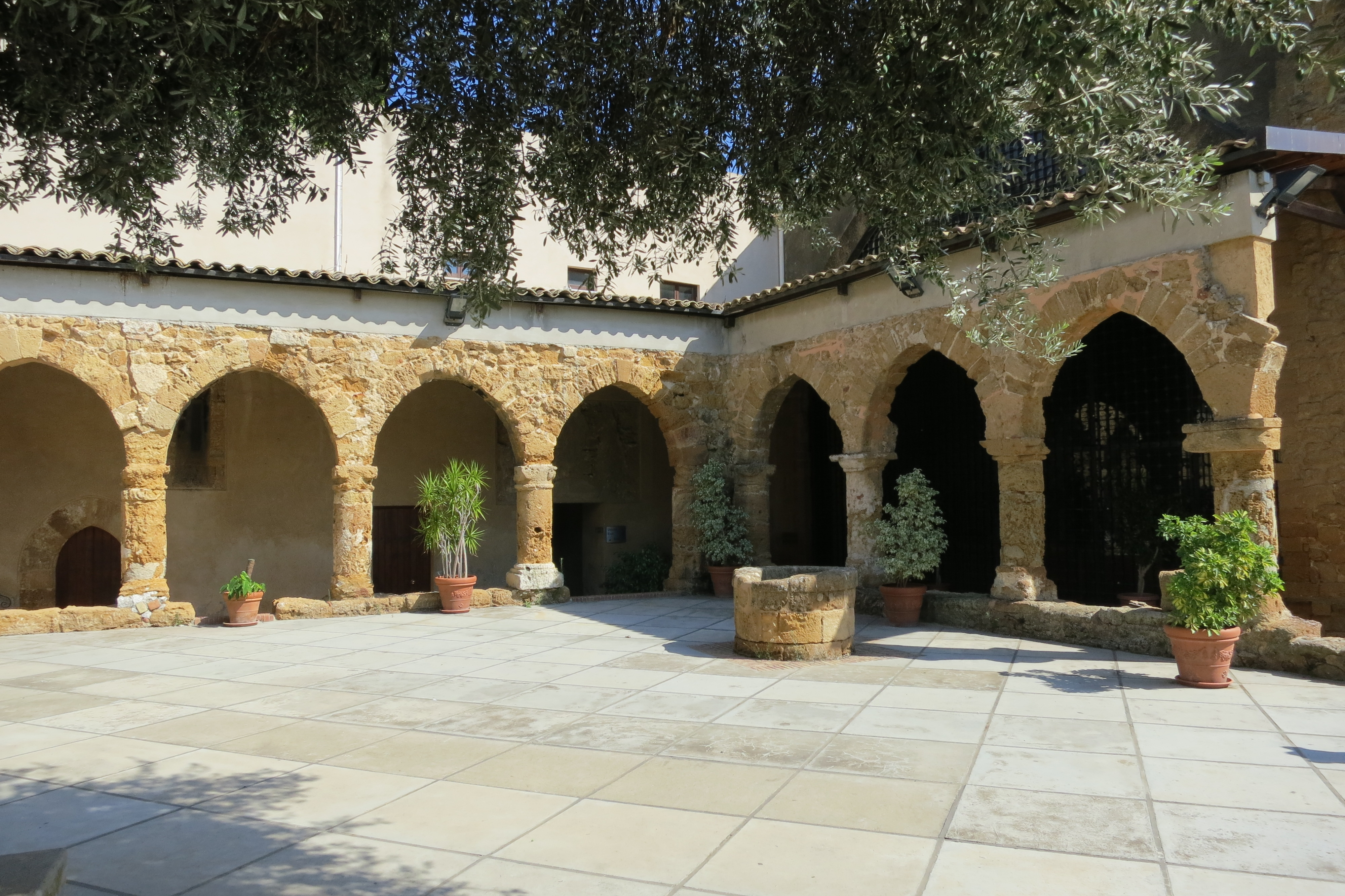 Courtyard of Cistercian monastery, now at Archaeological Museum of Agrigento.